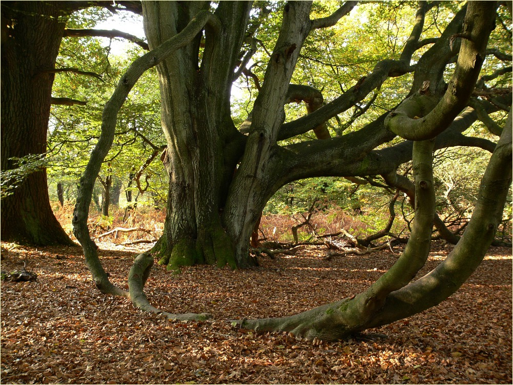 Rooted red beechwood in the Sababurg primeval forest